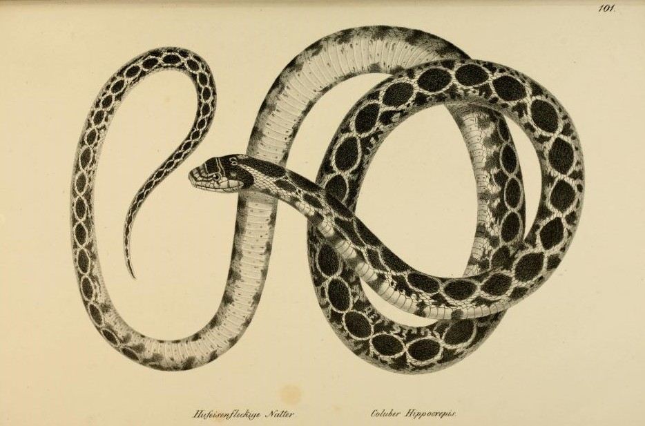 Hemorrhois hippocrepis = Coluber hippocrepis, Horseshoe Whip Snake, drawing and lithography by Karl Joseph Brodtmann, "Naturgeschichte und Abbildungen der Reptilien" by Heinrich Rudolf Schinz (1777-1861) and Karl Joseph Brodtmann (1787-1862)